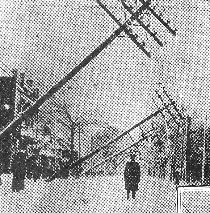 E 105th St, Cleveland, Ohio, Nov 11, 1913. From the Cleveland Plain Dealer, page 1. Caused by the Great Lakes Storm of 1913.